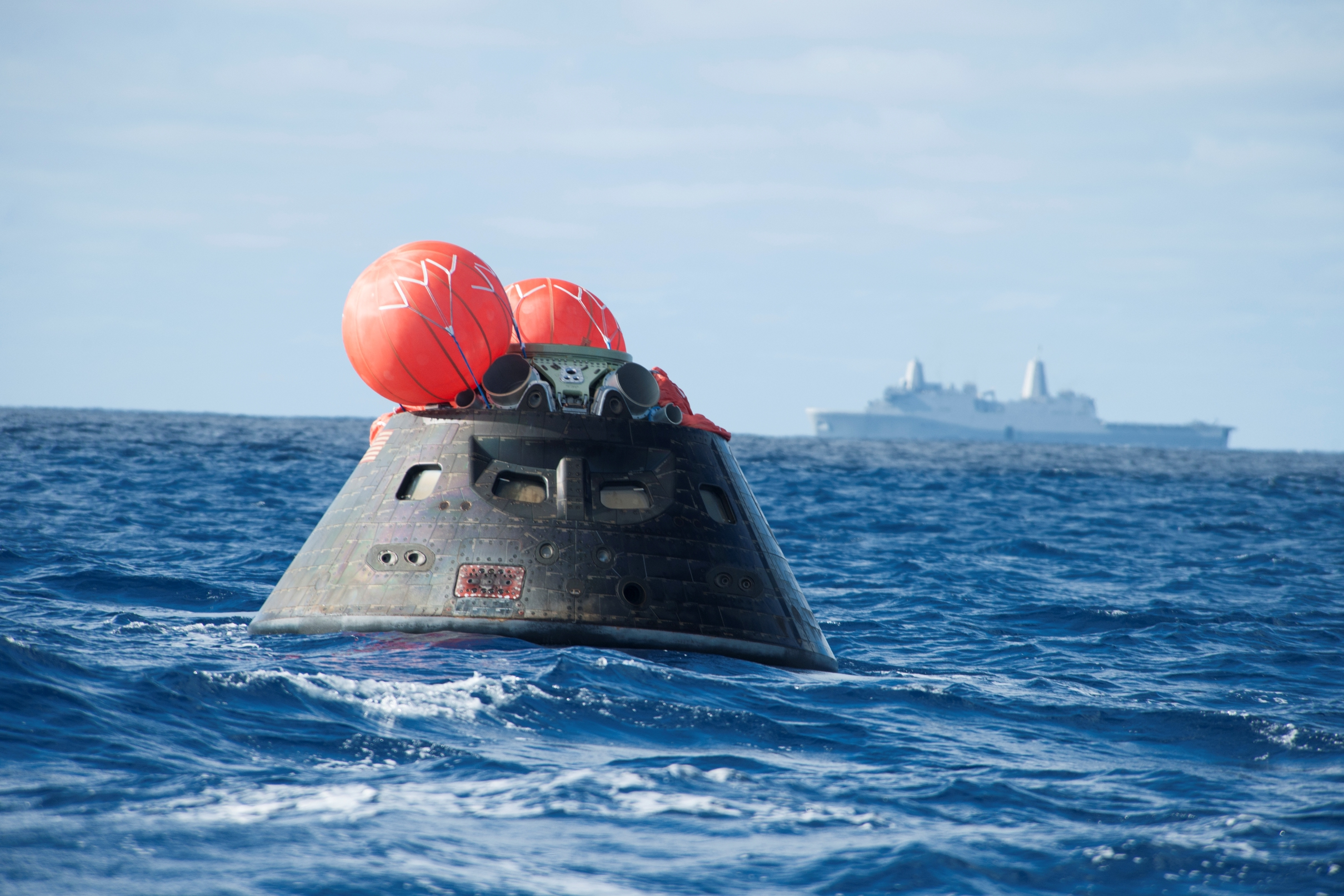 NASA's Orion spacecraft awaits the U.S. Navy's USS Anchorage for a ride home. Orion launched into space on a two-orbit, 4.5-test flight at 7:05 am EST on Dec. 5, and returned safely splashed down in the Pacific Ocean, where a combined team from NASA, the Navy and Orion prime contractor Lockheed Martin retrieved it for return to shore. It's now being transported back to shore on board the Anchorage. It is expected to be off loaded at Naval Base San Diego on Monday.